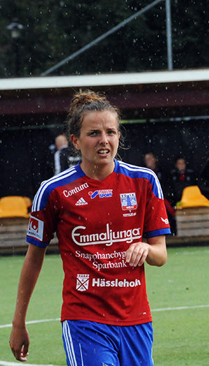 Hayley Lauder of Vittsjö GIK Hayley Lauder of Vittsjö GIK